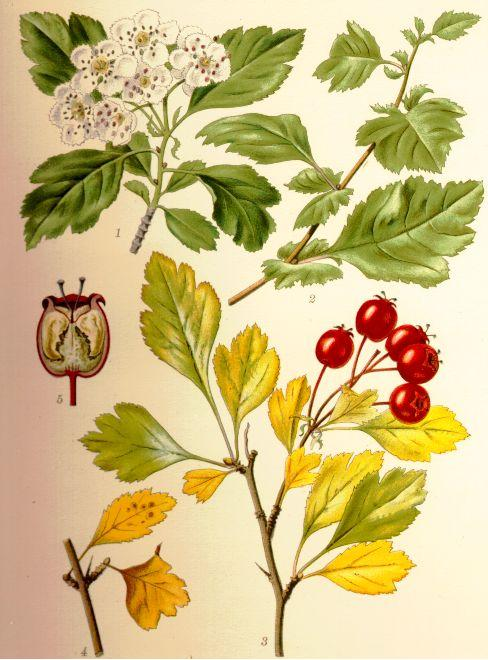 Midland Hawthorn Crataegus laevigata 1. inflorescence and leaves of short shoot (June 1st), 2. top of long shoot, 3. & 4. leaves in autumn colour and fruit (October 1st), 5. fruit with the flesh removed on one side, so that the two seeds are visible (2:1).